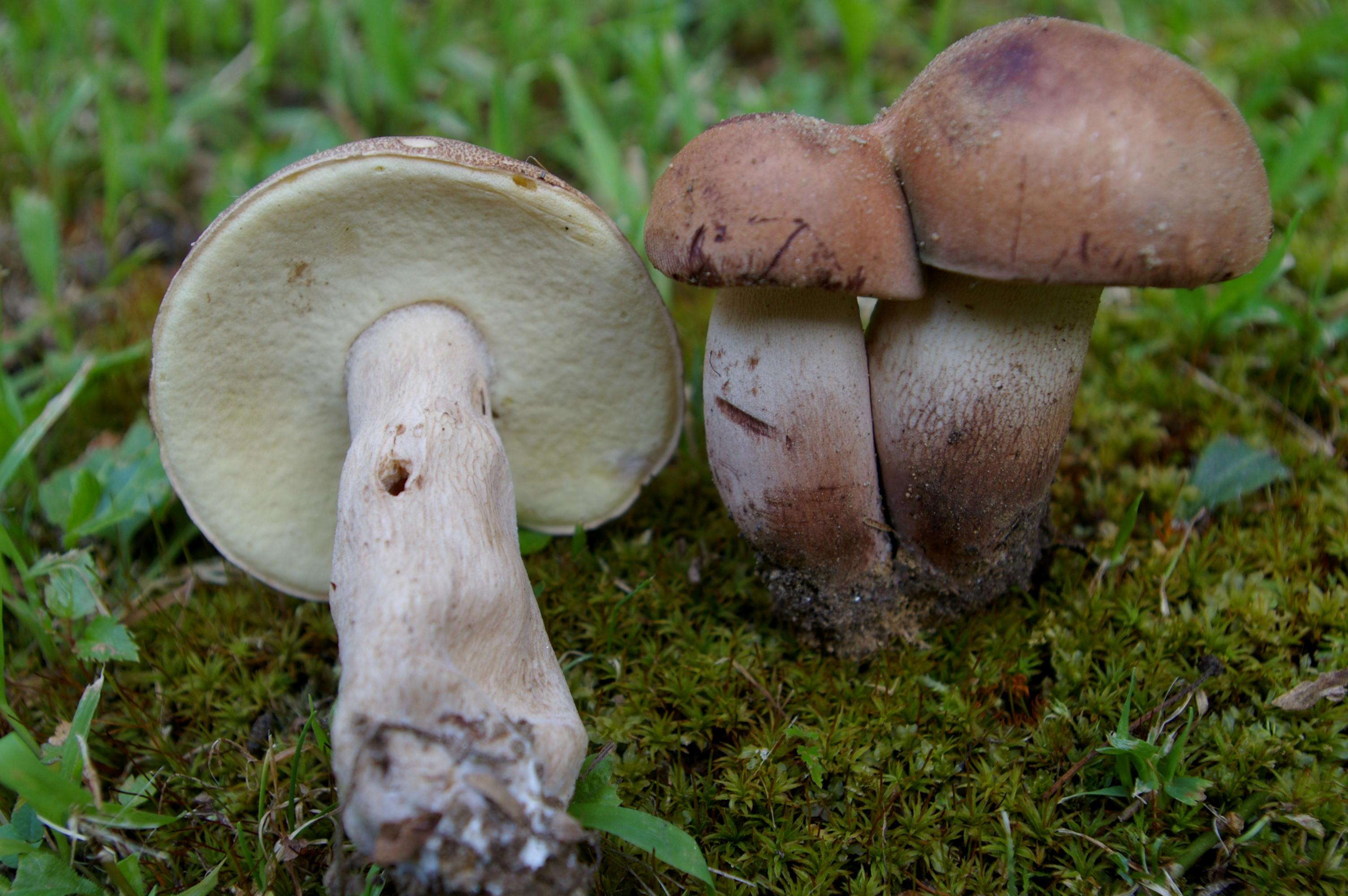 Fruit bodies of the bolete fungus Tylopilus variobrunneus Roody, A.R. Bessette & Bessette. Found in Nehantic State Forest, Lyme, Connecticut, USA.